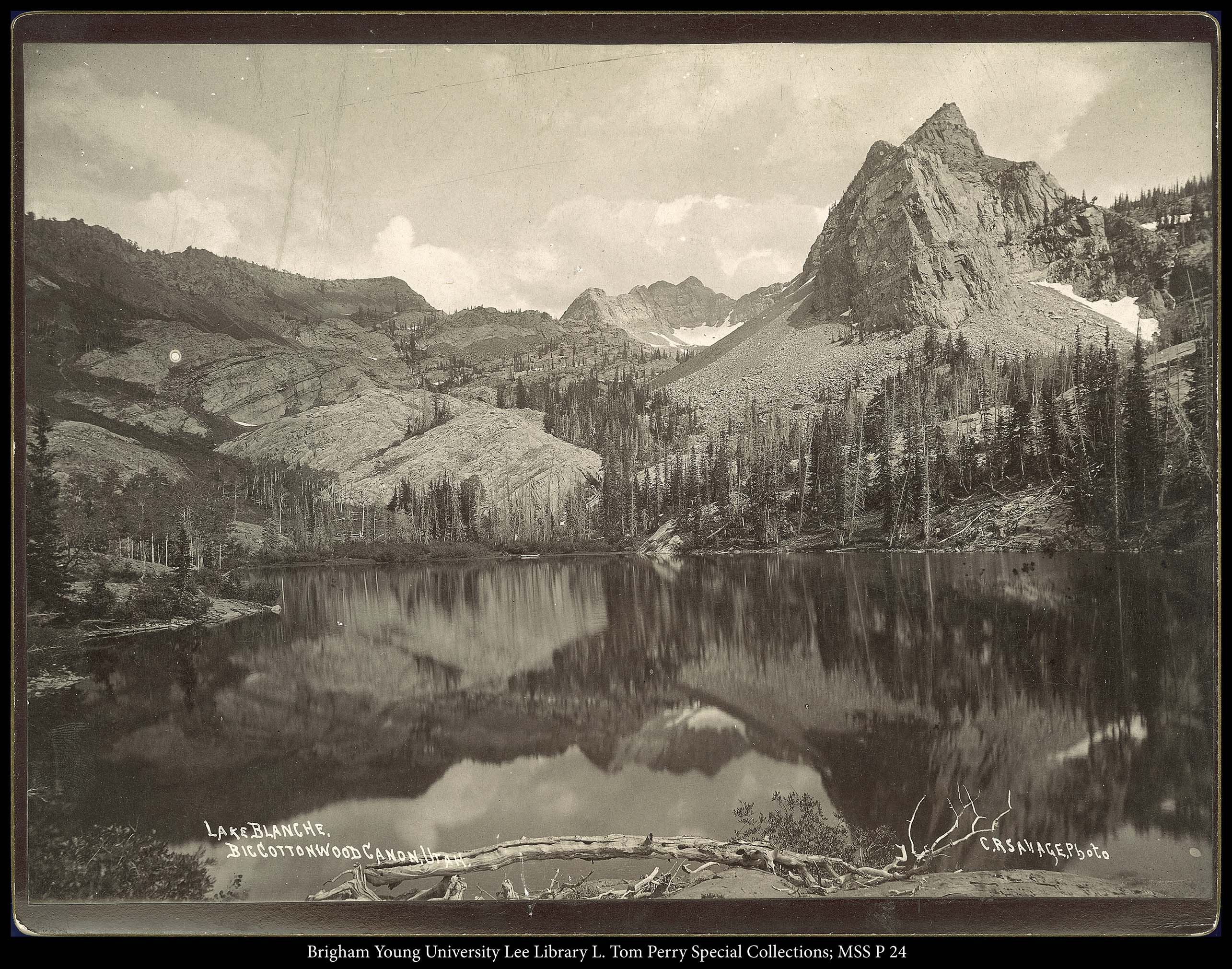 A scenic view of a lake, reflecting mountains with some snow on them.